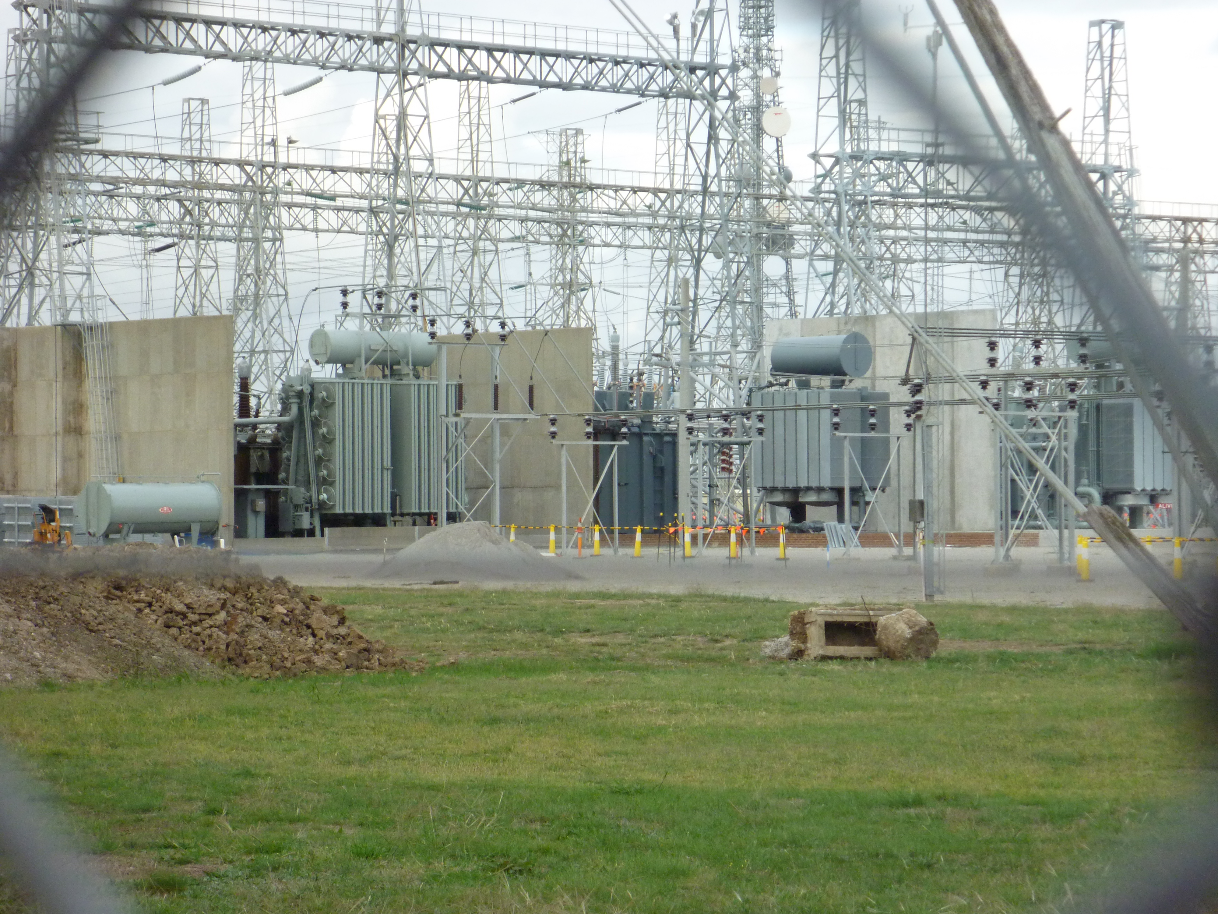 This is the Keilor Terminal station (transmission substation) in the western suburbs of Melbourne, Australia. As seen in the photo are 3 of the 5 220/66 kV transformers that supply all of the northern and western suburbs of Melbourne. Shown is the 220/66 kV section of the station which supplies 210,000 to 215,000 homes and businesses including Melbourne Airport. The 500 kV section adjacent (converts to 220 kV for the 220/66 kV transformers via 3 1000 MVA 500/220 kV transformers) to this is a switching station and doesn't direct supply any homes, but loops with other 220 kV and 500 kV terminal stations nearly supplying all of western Victoria. Here is a Google Map showing the supply area of KTS [1]